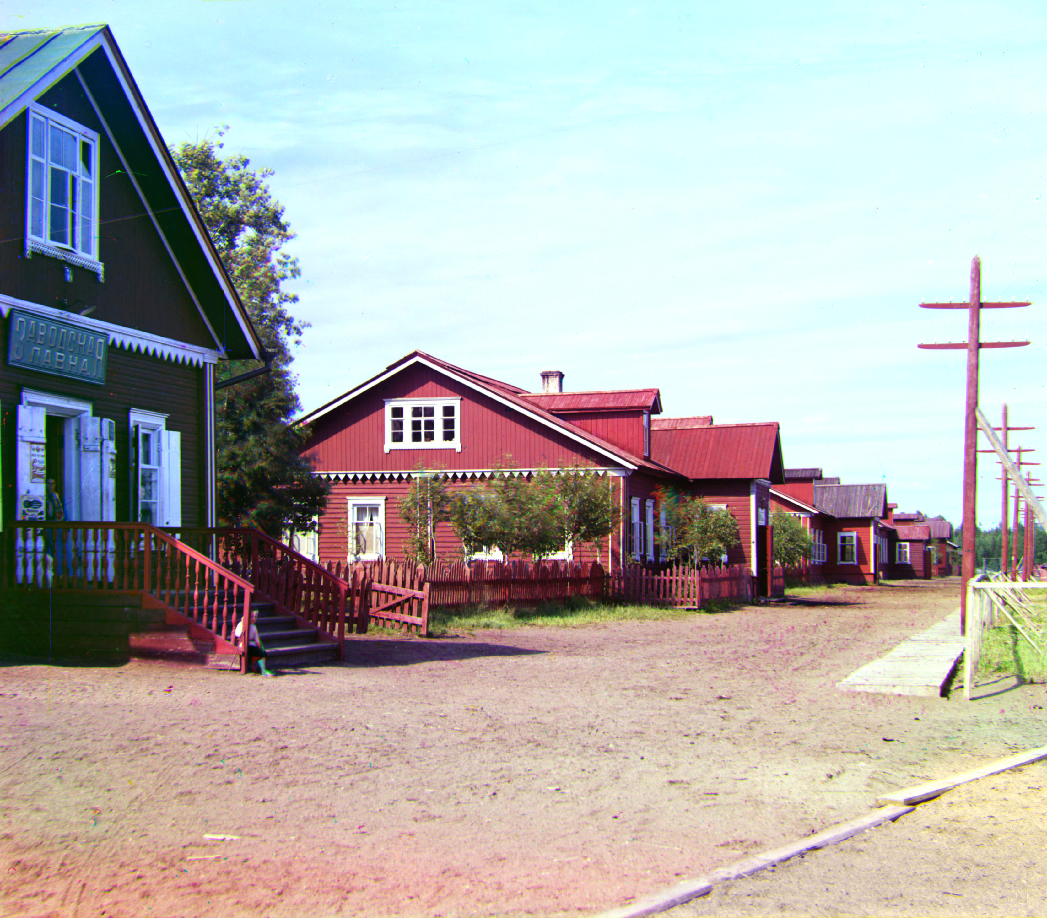 Factory living quarters. Kovzha. (Russian Empire)